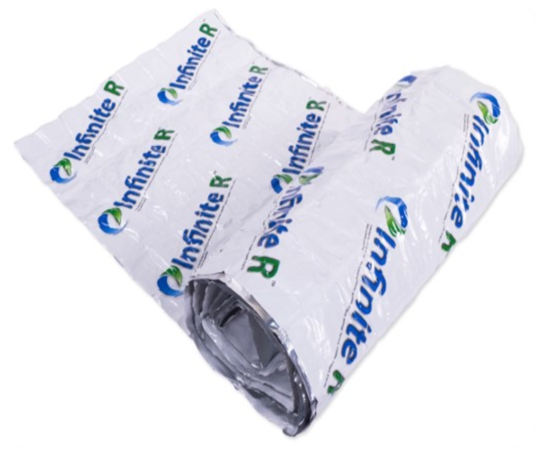 Common macro-encapsulated 'mat' type phase change material product for building energy conservation and thermal comfort control applications.